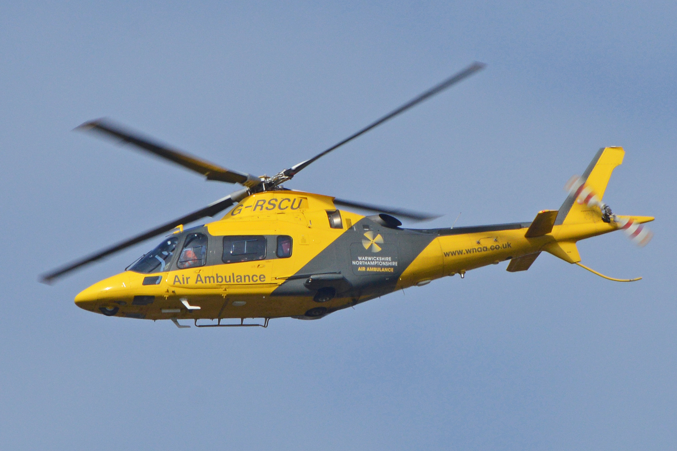 c/n 11777. Built 2009. Operated by Sloane Helicopters for the Warwickshire & Northamptonshire Air Ambulance. Coventry Airport, UK 11-10-2015